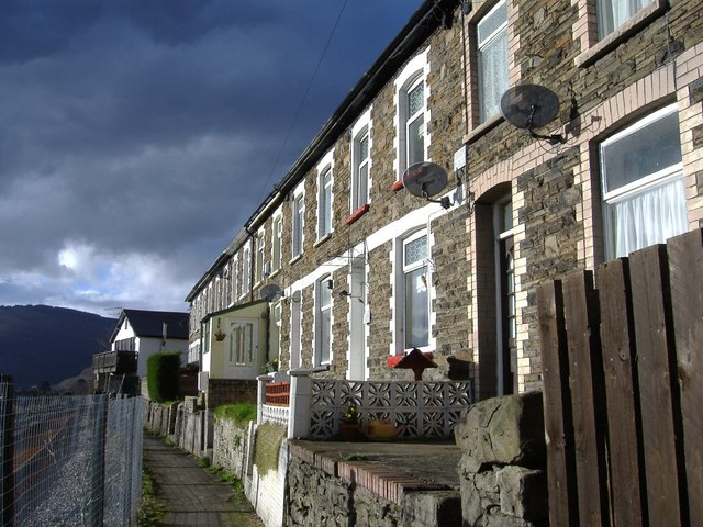 Traditional Welsh terrace, Fernlea, near to Risca, Caerphilly/Caerffili, Great Britain. The railway from Newport to Abertillery runs immediately in front of these houses. The track can be glimpsed behind the wire fence, on the left.